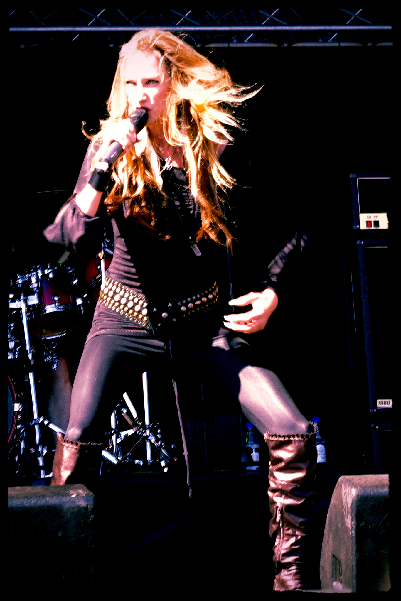 Huntress at Sweden Rock 2013